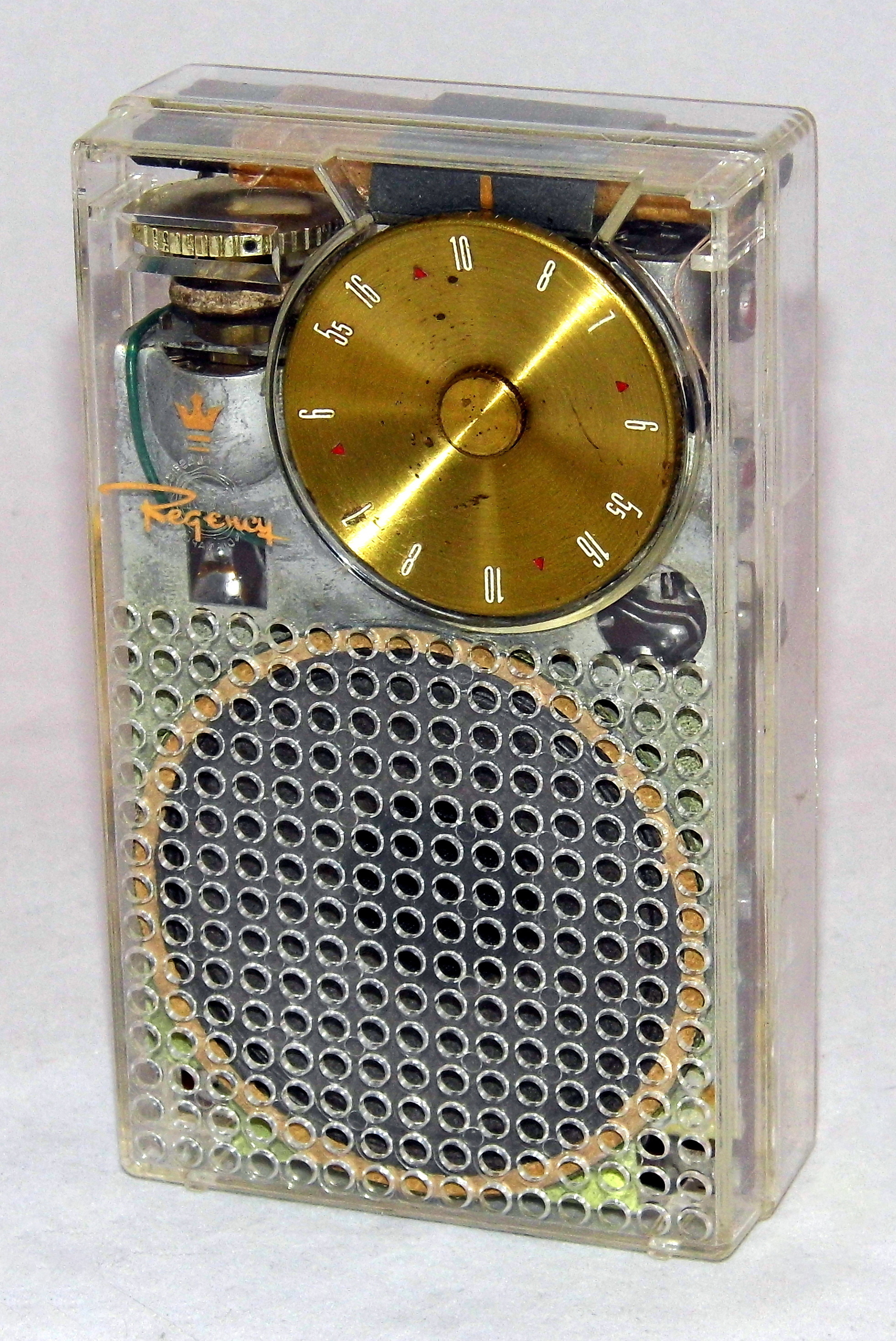 Vintage Regency TR-1 With A Clear Case (Likely For Demonstration Purposes), Has A TR-1G Serial Number But A TR-1 Tuning Dial